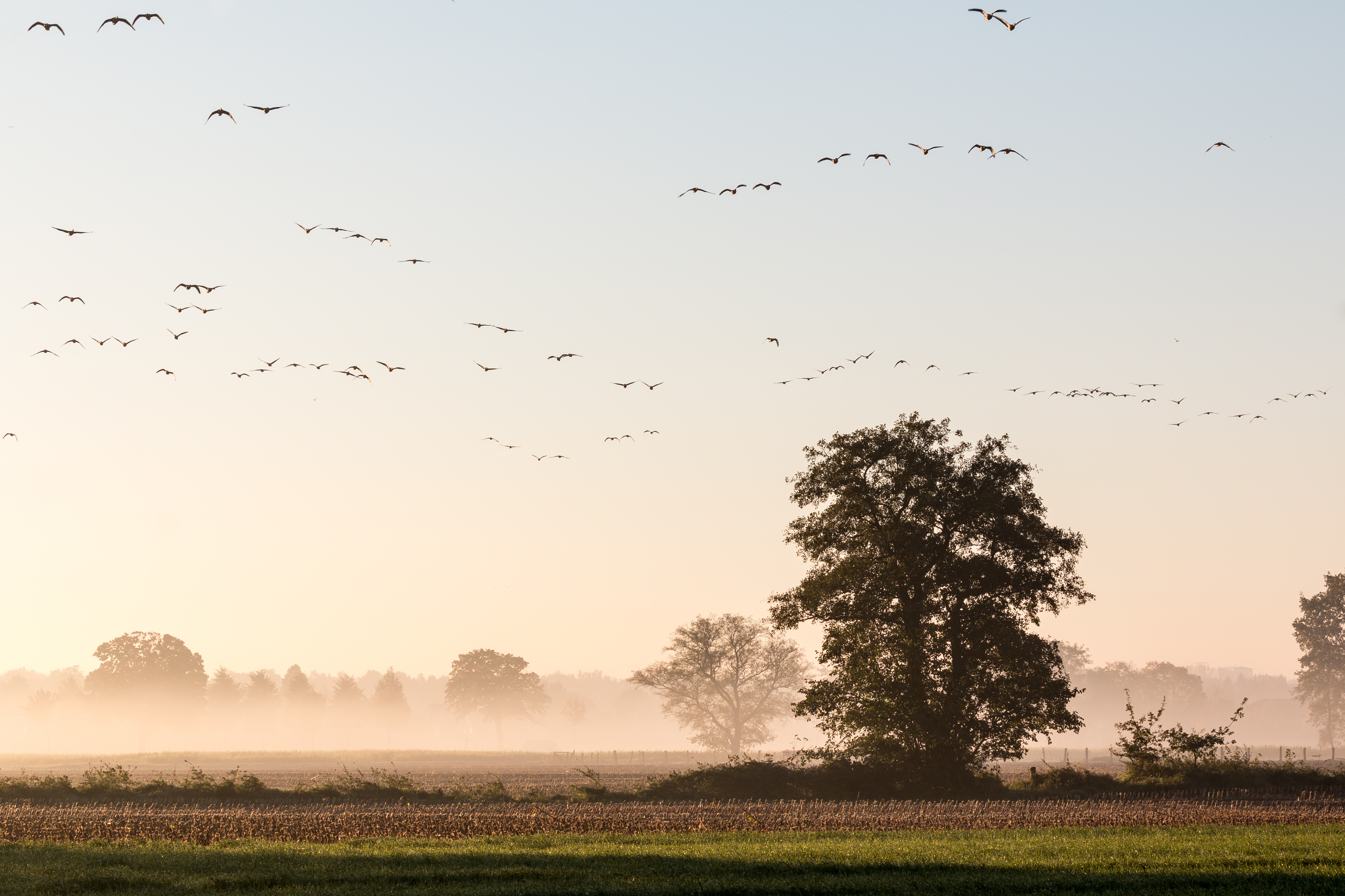 Flying goose at sunrise in the Börnste hamlet, Kirchspiel, Dülmen, North Rhine-Westphalia, Germany